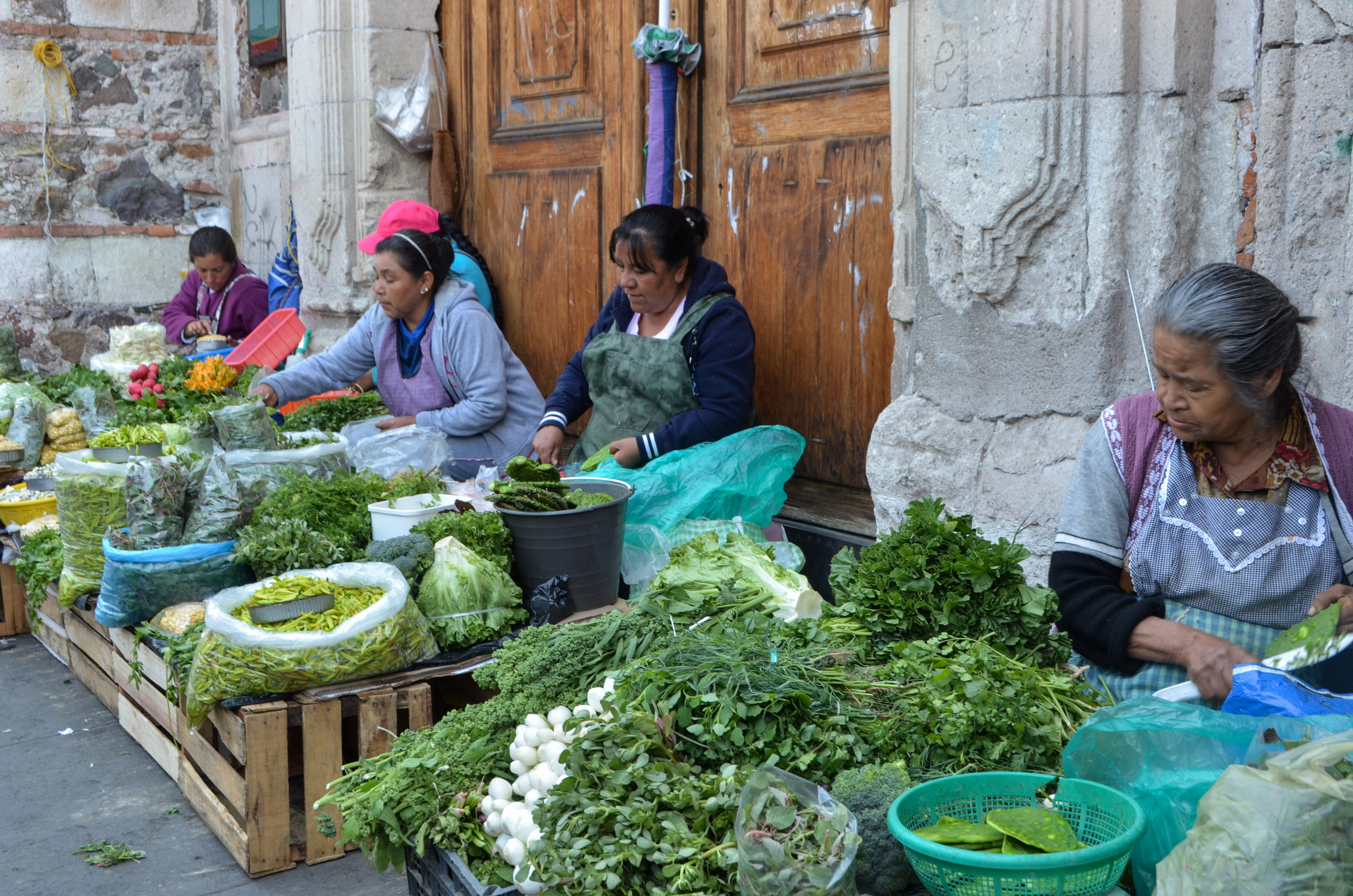 Parte de la serie fotográfica "convergencias", es el encuantro de la cultura, los lenguajes, colores, olores y sabores, que nos proporcionan los mercados tradicionales y las plazas de mercado de México, espacios que nos generan experiencias a traves de la diversidad y permite el cambio de ideas de sociedades disimiles.